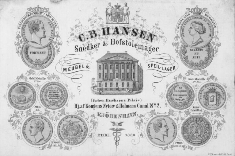 C.B. Hansens Etablissement, Danish furniture factory, est. 1830